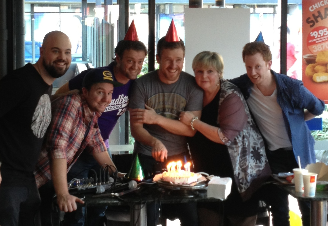 The Little Dum Dum Club special live podcast show at McDonald's Hawthorn for Nick Cody's birthday. Featuring left to right: Xavier Michelides, Tommy Dassalo, Karl Chandler, Nick Cody, Cody's mum, Luke McGregor.